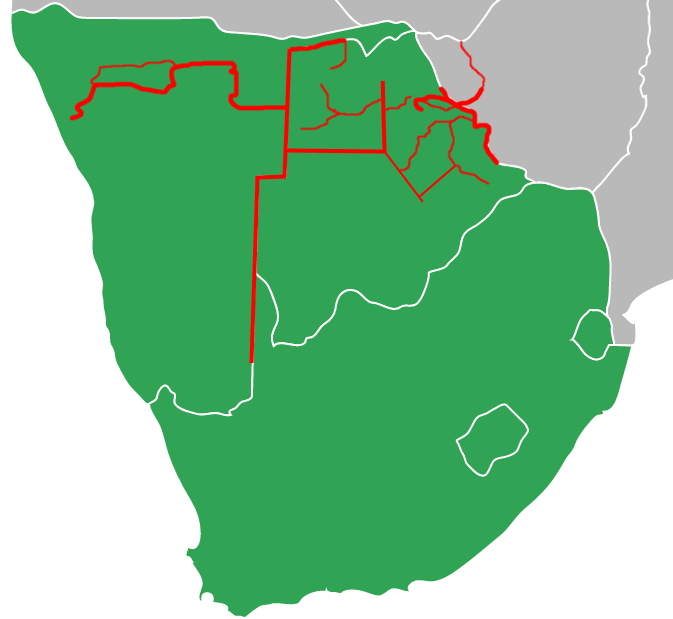 Veterinary Cordon Fences in Southern Africa (as per